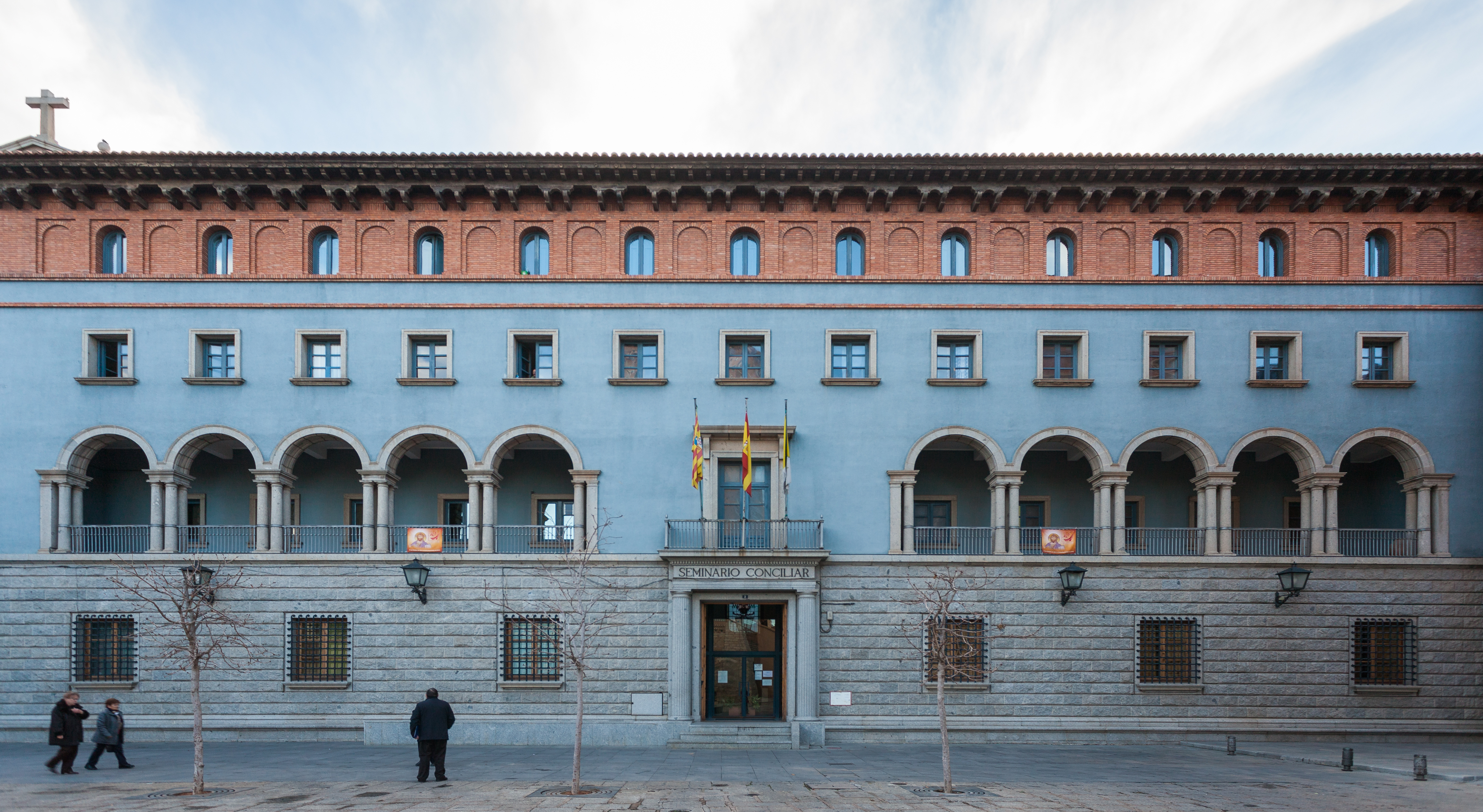 Seminario conciliar, Teruel, España